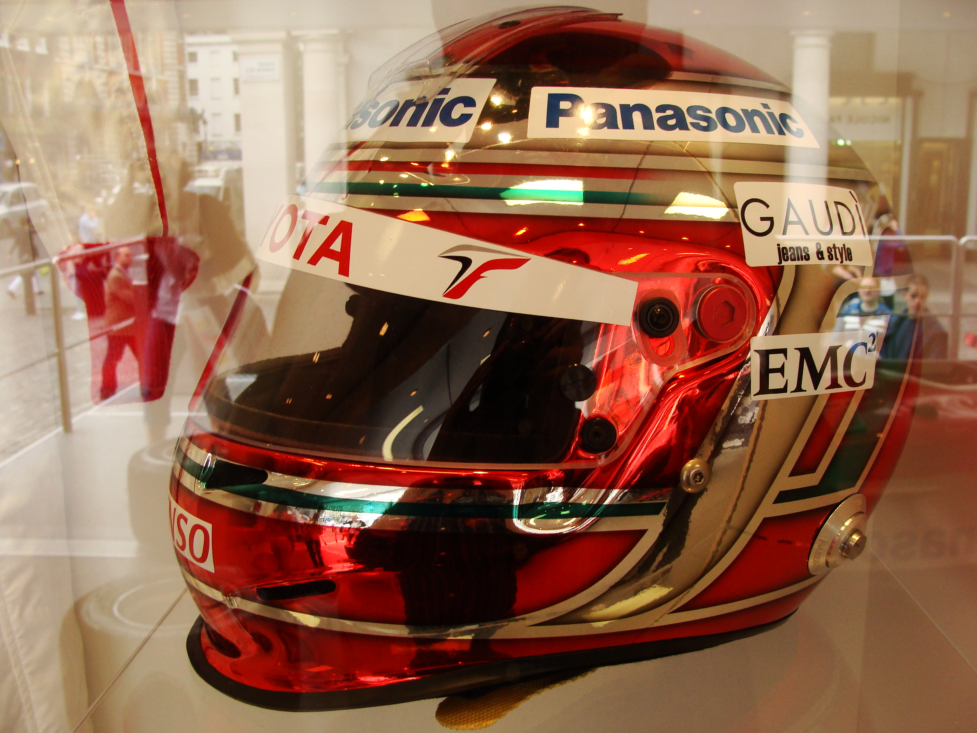 Jarno Trulli's helmet in 2009.